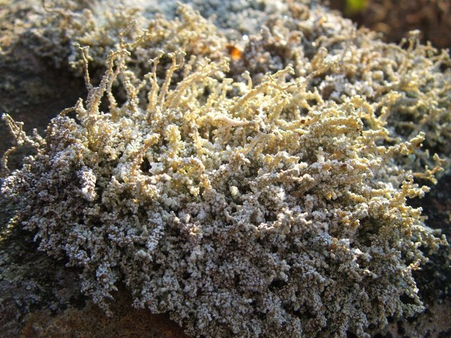 A lichen - Stereocaulon vesuvianum. This lichen was growing on top of a dry-stone wall: 1050079. It is in the form of a springy mat, and consists of upright stalks called pseudopodetia (compare the podetia that occur in Cladonia species: 1060981). The stalks are densely encrusted with little leaf-like lobes called phyllocladia; see 1103506 for a closer look. Spore-producing discs are sometimes also present; a few of these small dark brown spots can be seen in the upper right part of the lichen. This specimen was growing on a part of the wall that was beneath some slightly corroded barbed wire. The resulting zinc-rich run-off would be damaging to many lichens, but Stereocaulon species are among those that can tolerate high concentrations of heavy metals. In fact, the species shown here, S. vesuvianum, is "very common in upland regions on well-lit, siliceous rocks, especially if metal-rich, often forming dense mats" ["Lichens - An Illustrated Guide to the British and Irish Species", Frank S. Dobson]. This topic is also discussed in "Understanding Lichens", by George Baron; discussing the ability of some lichens to tolerate high metal concentration, the book notes that "for example, the genus Stereocaulon is found among the debris of old lead mines ... The metal content that can be endured by lichens can be extraordinarily high and would be destructive to most organisms. ... Nevertheless, metal contamination is destructive to most lichens, certainly when constant rainwater drips on to them from copper, barbed wire or zinc, but even that niche is exploited by some lichens."